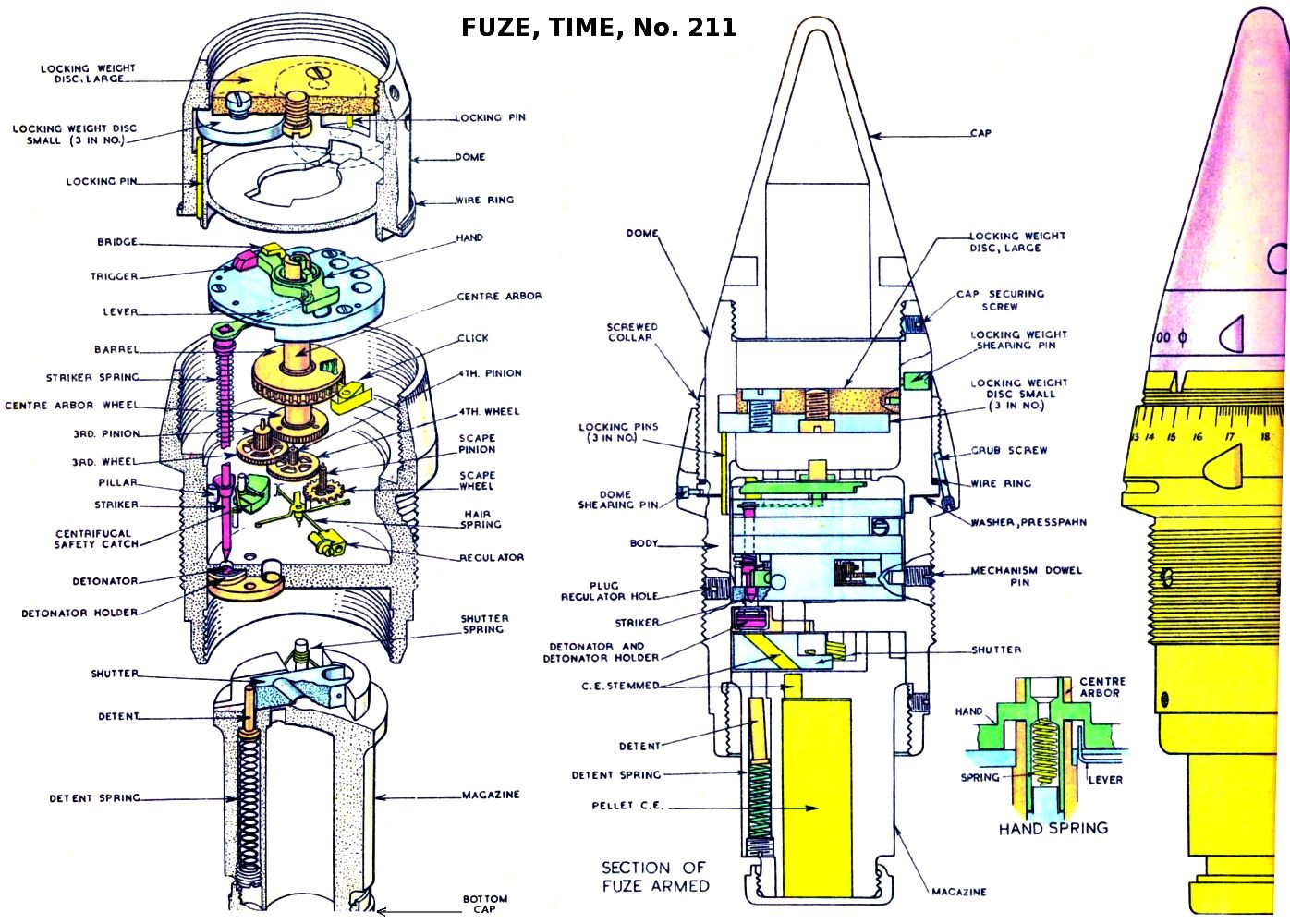 Diagrams of British No, 211 Time Fuze.